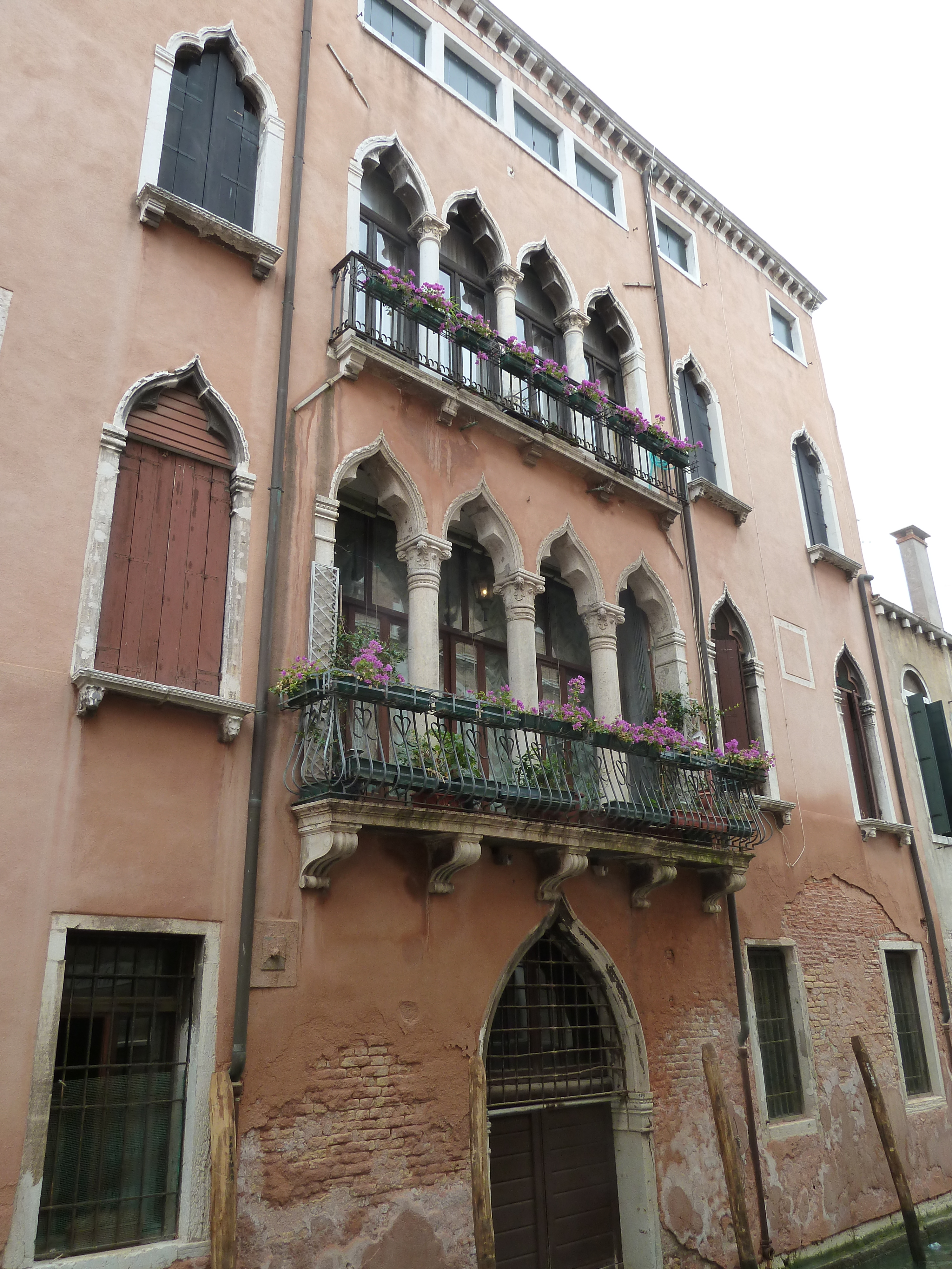 pal cappello